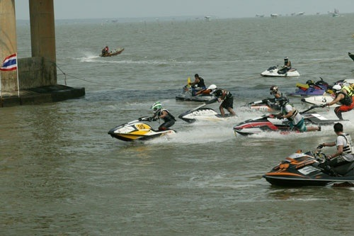 อ่าวบางตะบูนได้รับให้เป็นสถานที่จัดแข่งขันกีฬาทางน้ำมากมาย